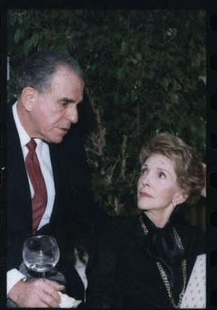 Charles Z. Wick visits with Nancy Reagan at a Christmas Eve party in his home in 1984.